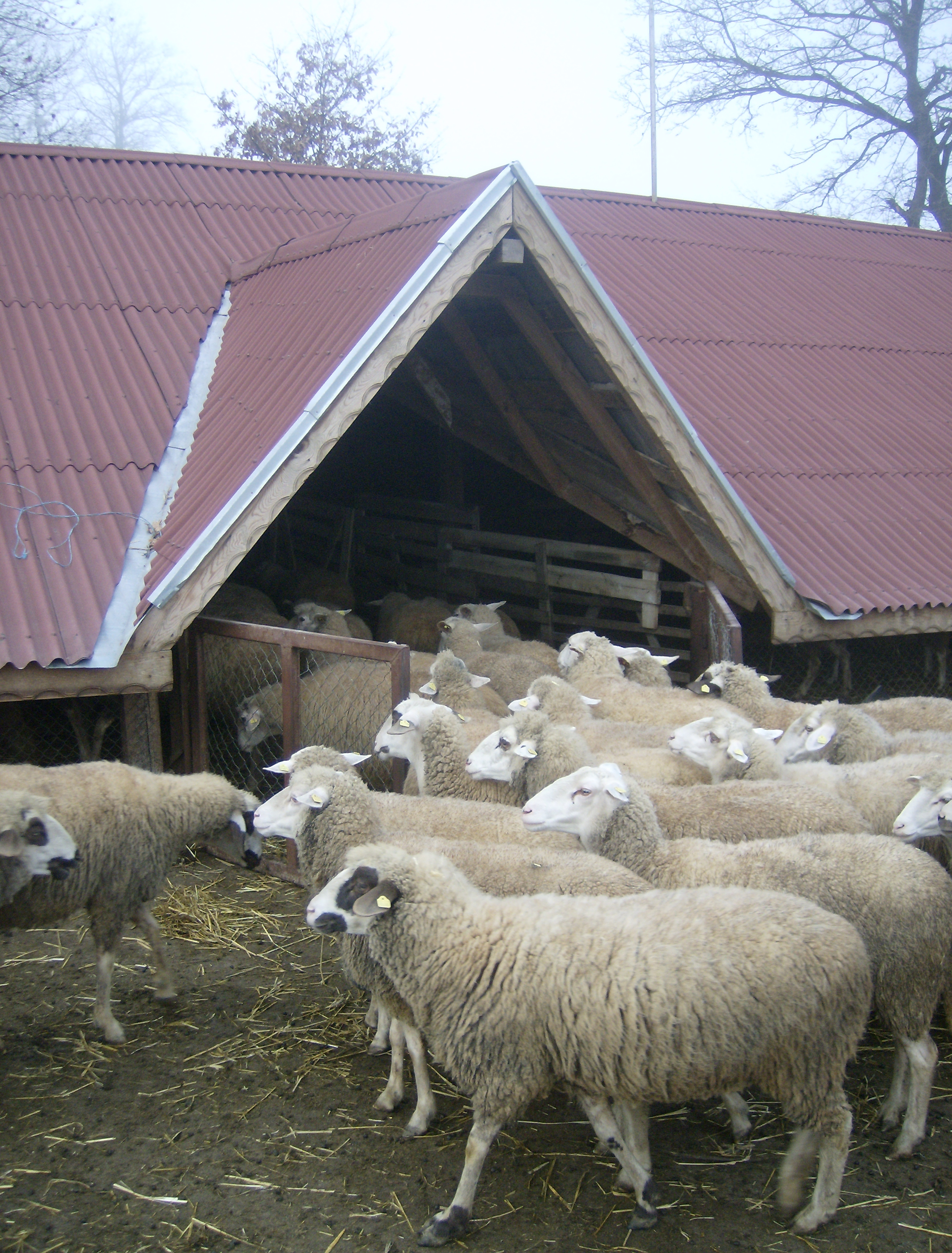 Synthetic Population Bulgarian Milky Sheep